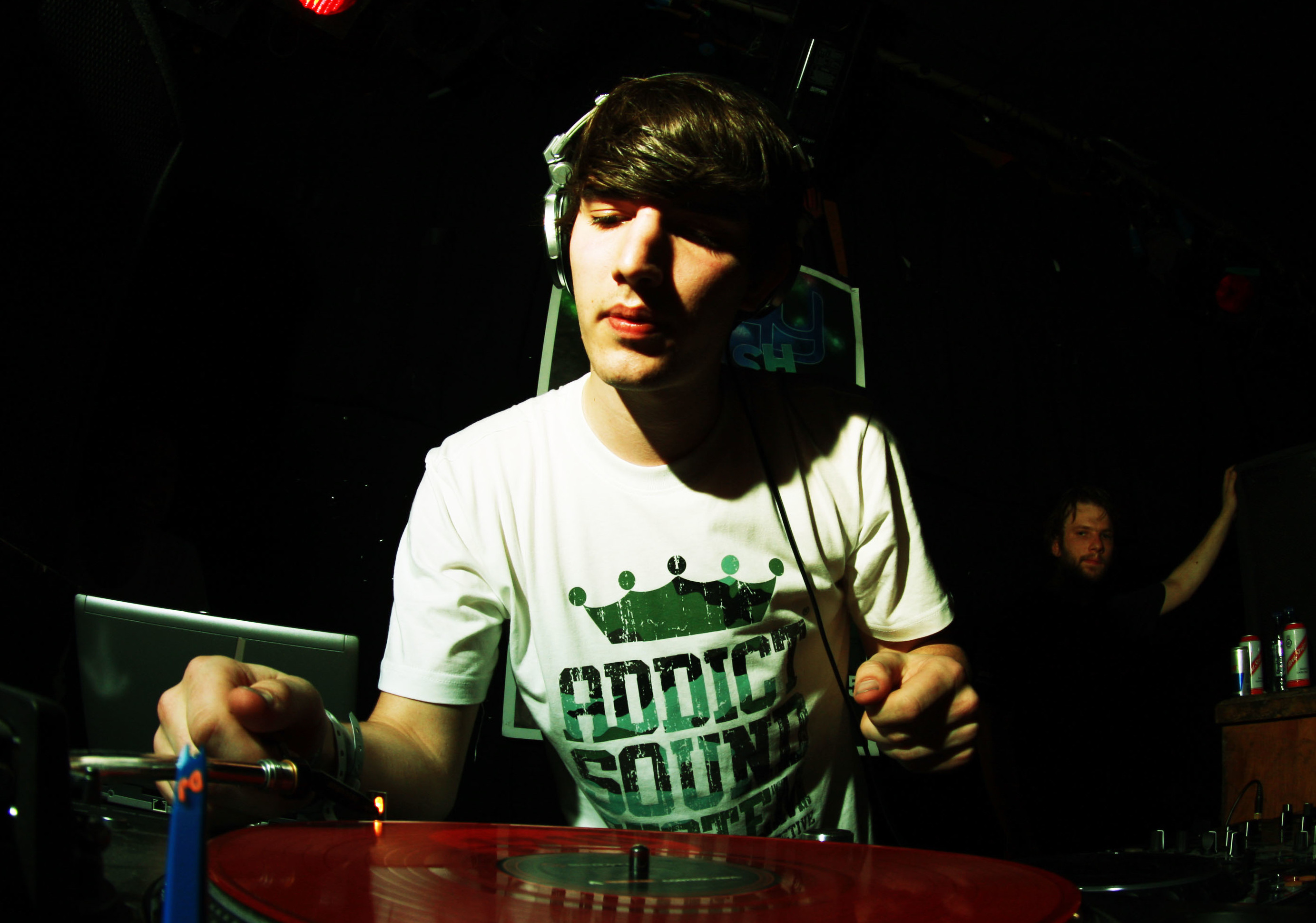 Netsky.